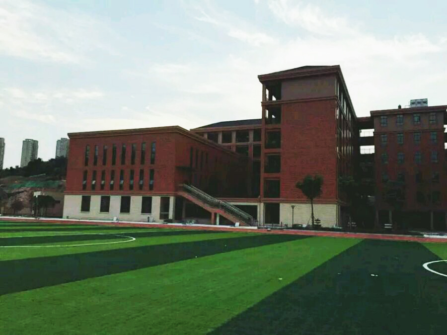 No.30 Junior School of Yichang Hubei province